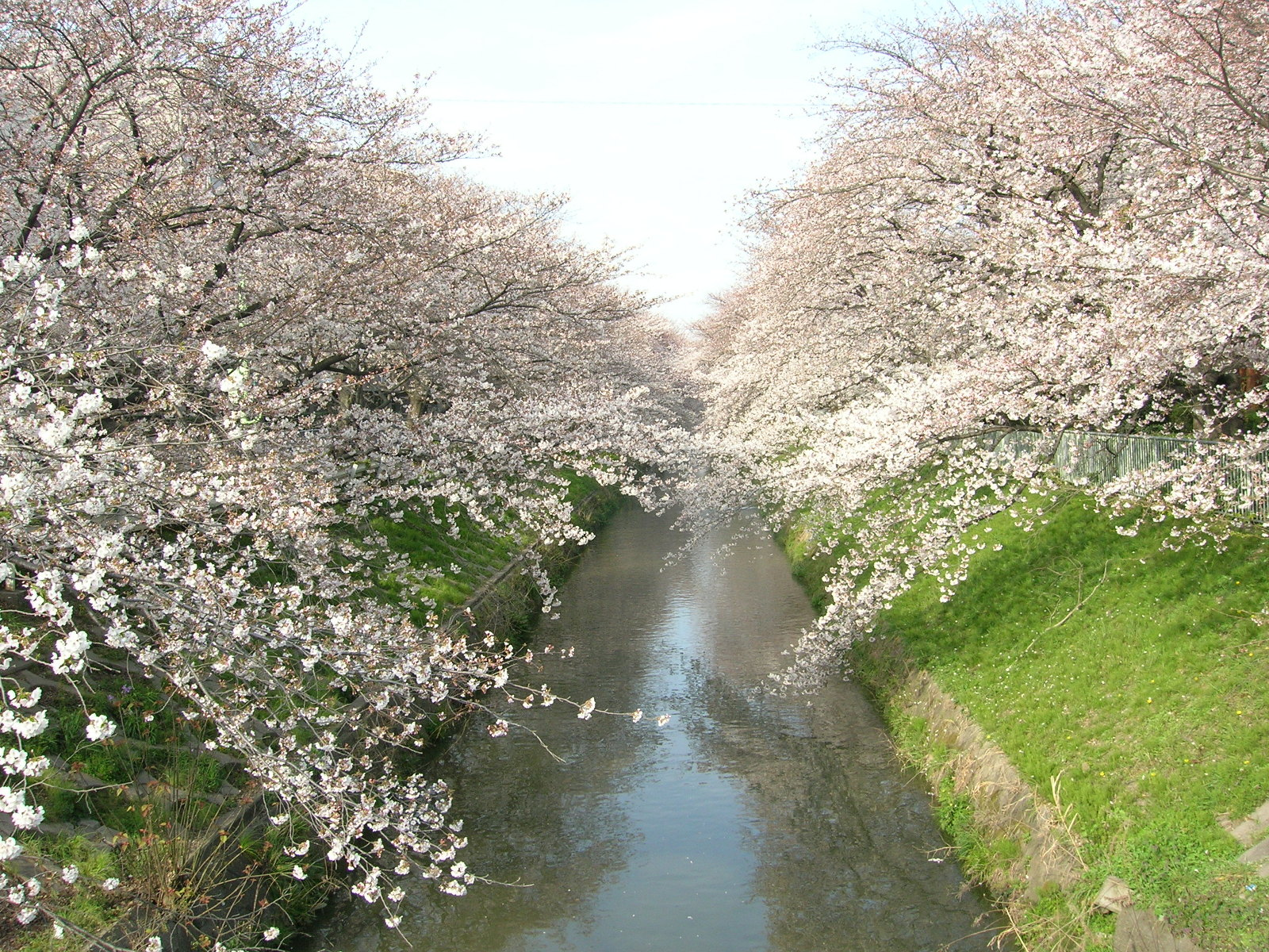 Kuro-kawa (Upper reaches of a Hori-kawa). Loc: Goyōsui-ato Gaien (Goyōsui-ato means ruins of canal), kita-ku, Nagoya city, Aichi Prefecture, Japan. 黒川 撮影場所 愛知県名古屋市北区・御用水跡街園